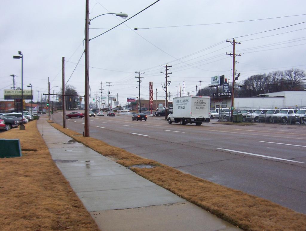 Summer Ave. near Old Summer Ave in Berclair. (Jan 2008) Photo made by: Thomas R Machnitzki I made the photo myself, feel free to use it.